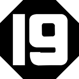 Original logo of WXIX-TV in Cincinnati, Ohio, licensed to Newport, Kentucky. Displayed at the station's dedication ceremony in 1968.